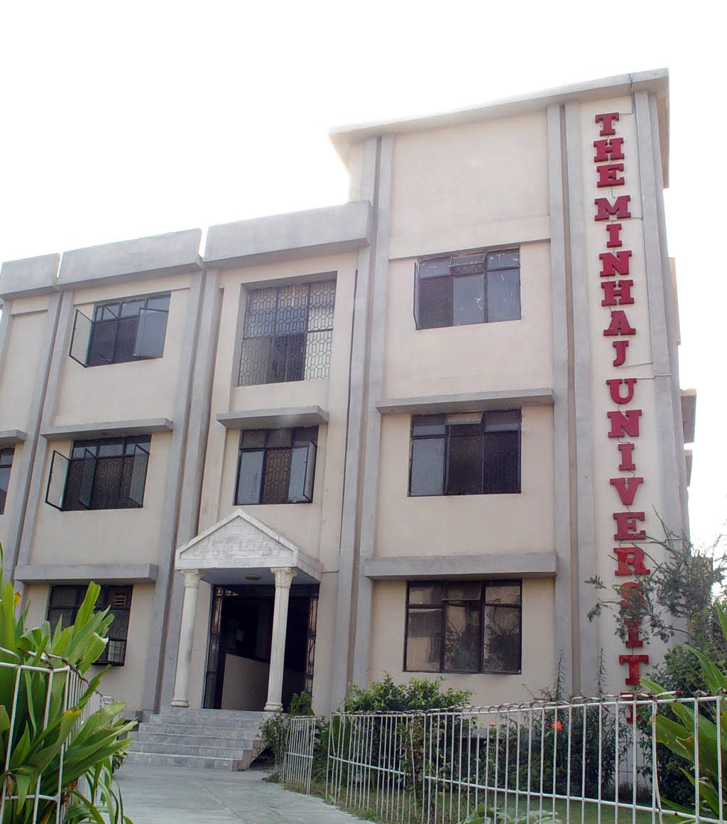 Licensing Policy about Wikipedia This is to clarify that all contents and images of this website can be used with reference of this website on Wikipedia under the free license: Creative Commons Attribution-Share Alike 4.0 International.